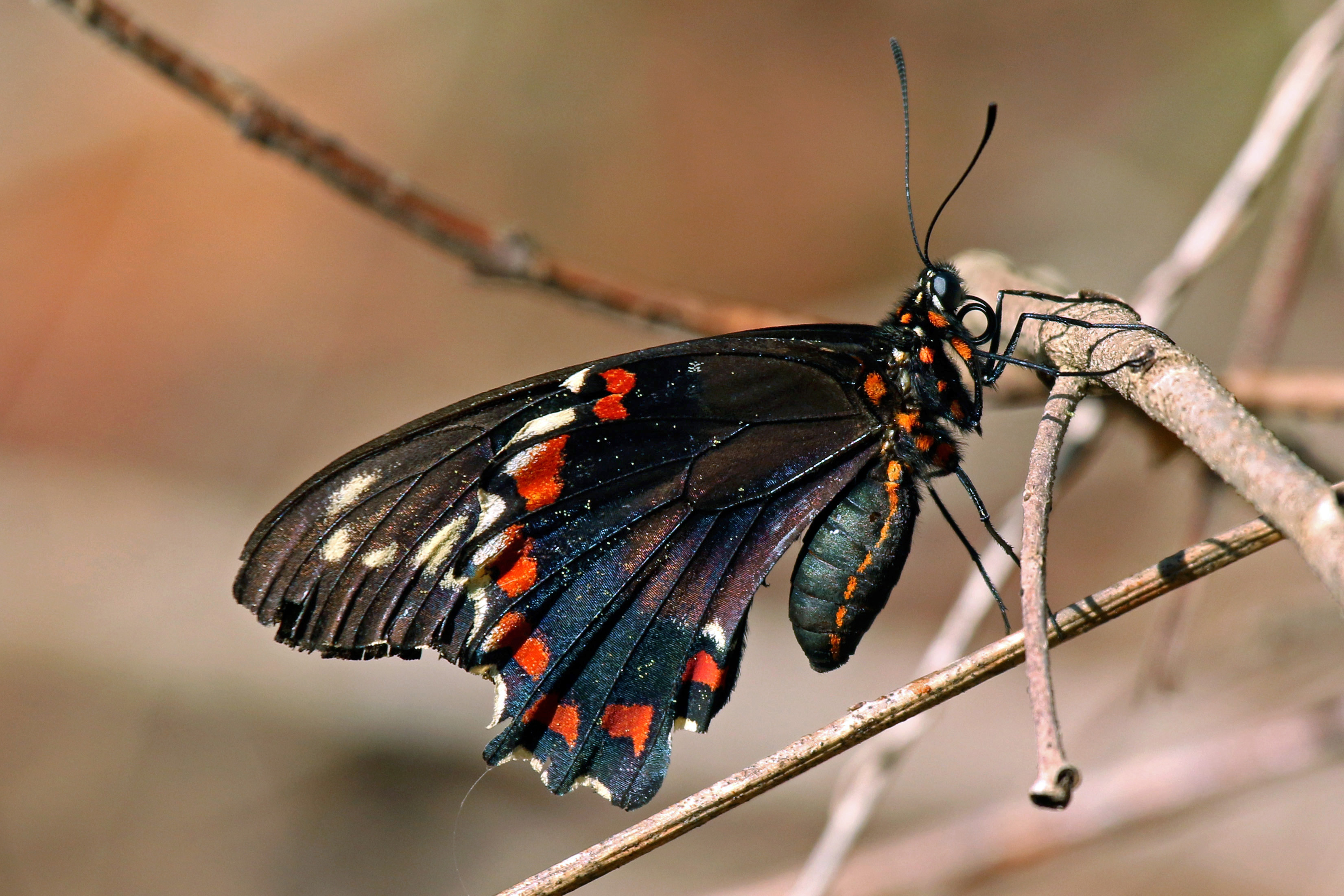 Gold rim swallowtail butterfly (Battus polydamas jamaicensis), Green Castle Estate, Jamaica